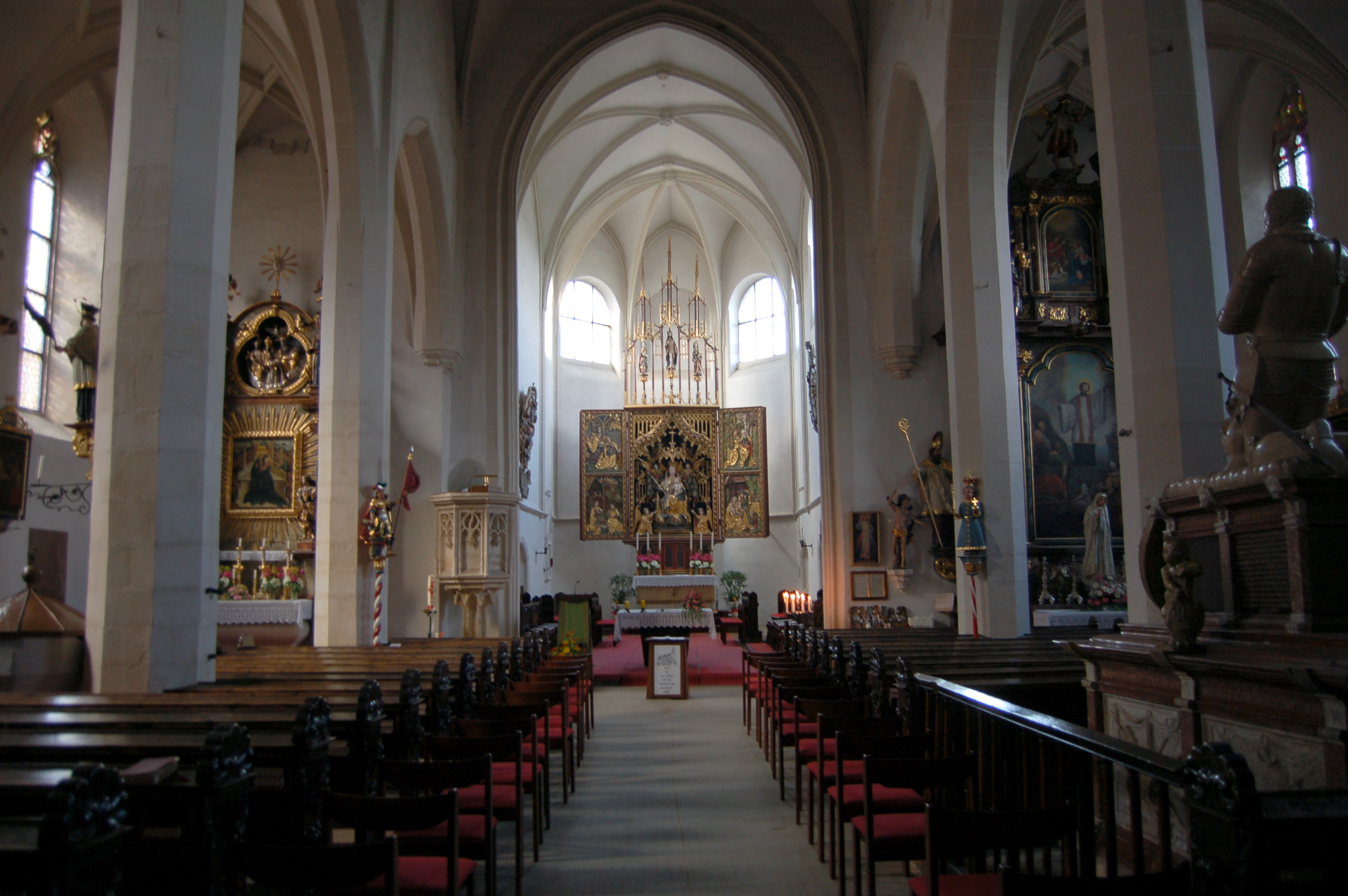 Interior of parish and pilgrimage church Maria Laach am Jauerling, Lower Austria